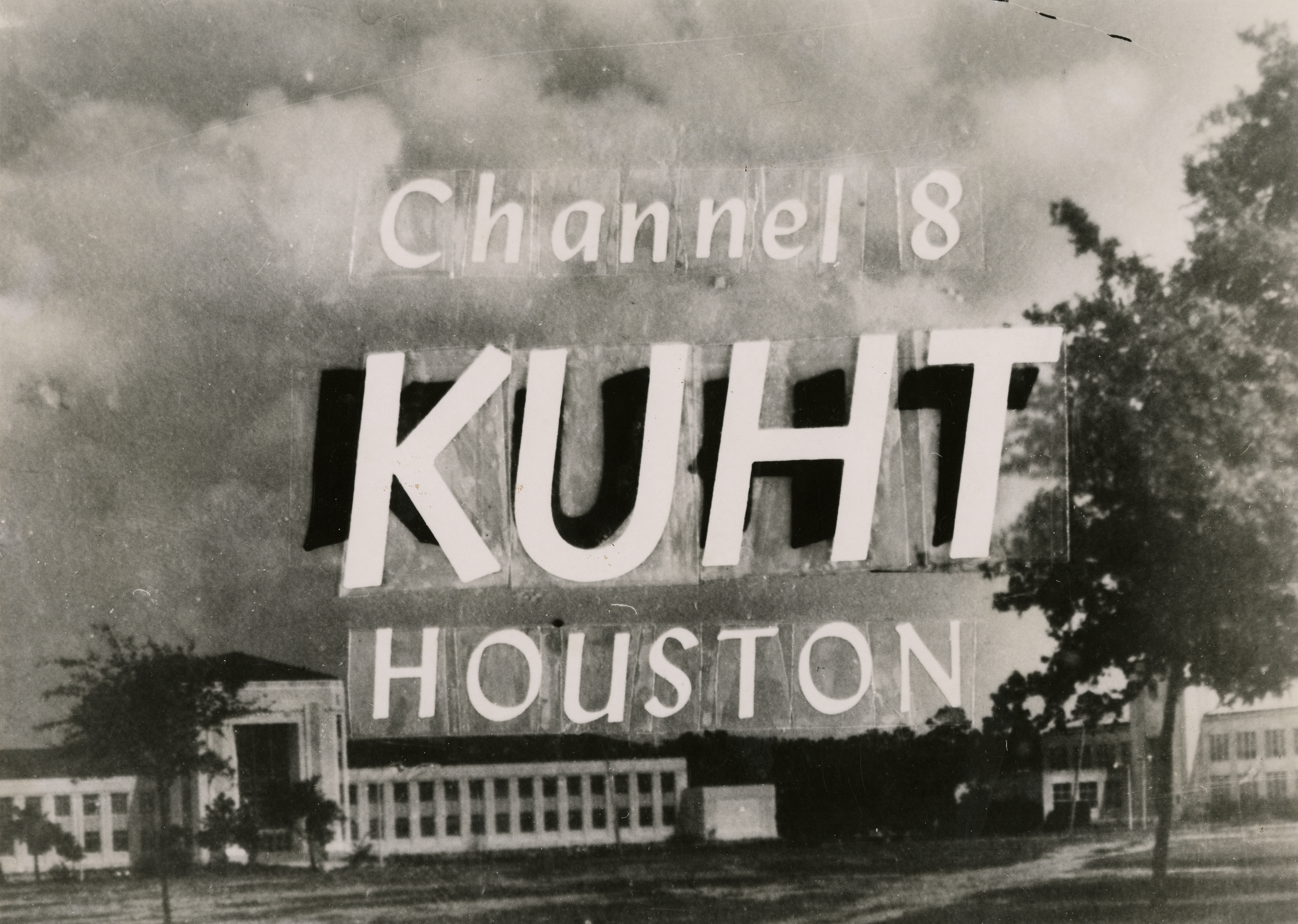 One of the first station ID slides for KUHT with a view of the Ezekiel Cullen Building, where the station was previously housed.